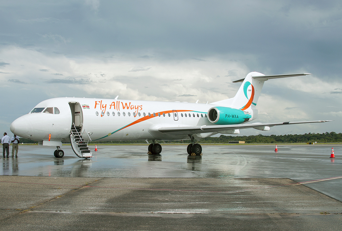 Fly All Ways Fokker F70 at Paramaribo Airport